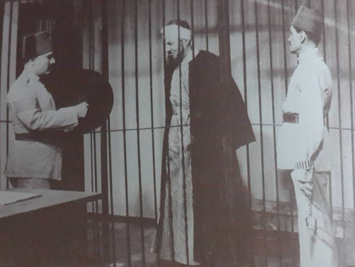 Naguib el-Rihani on the stage playing the role of "kishkish bey", in 1927